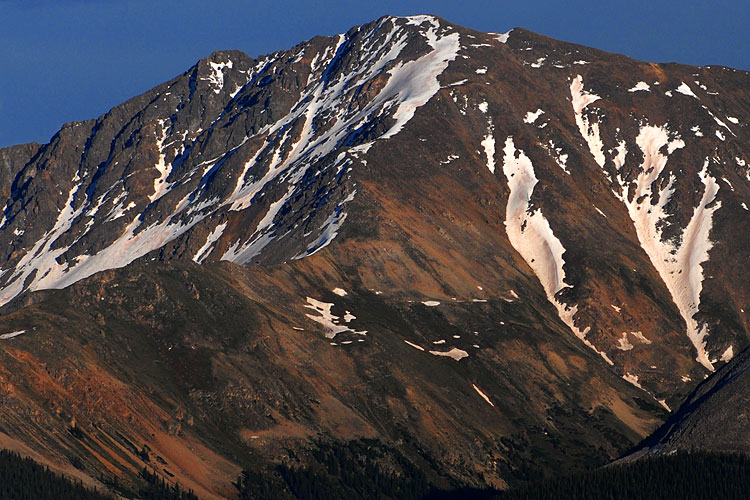 La Plata Peak, Colorado from I-82